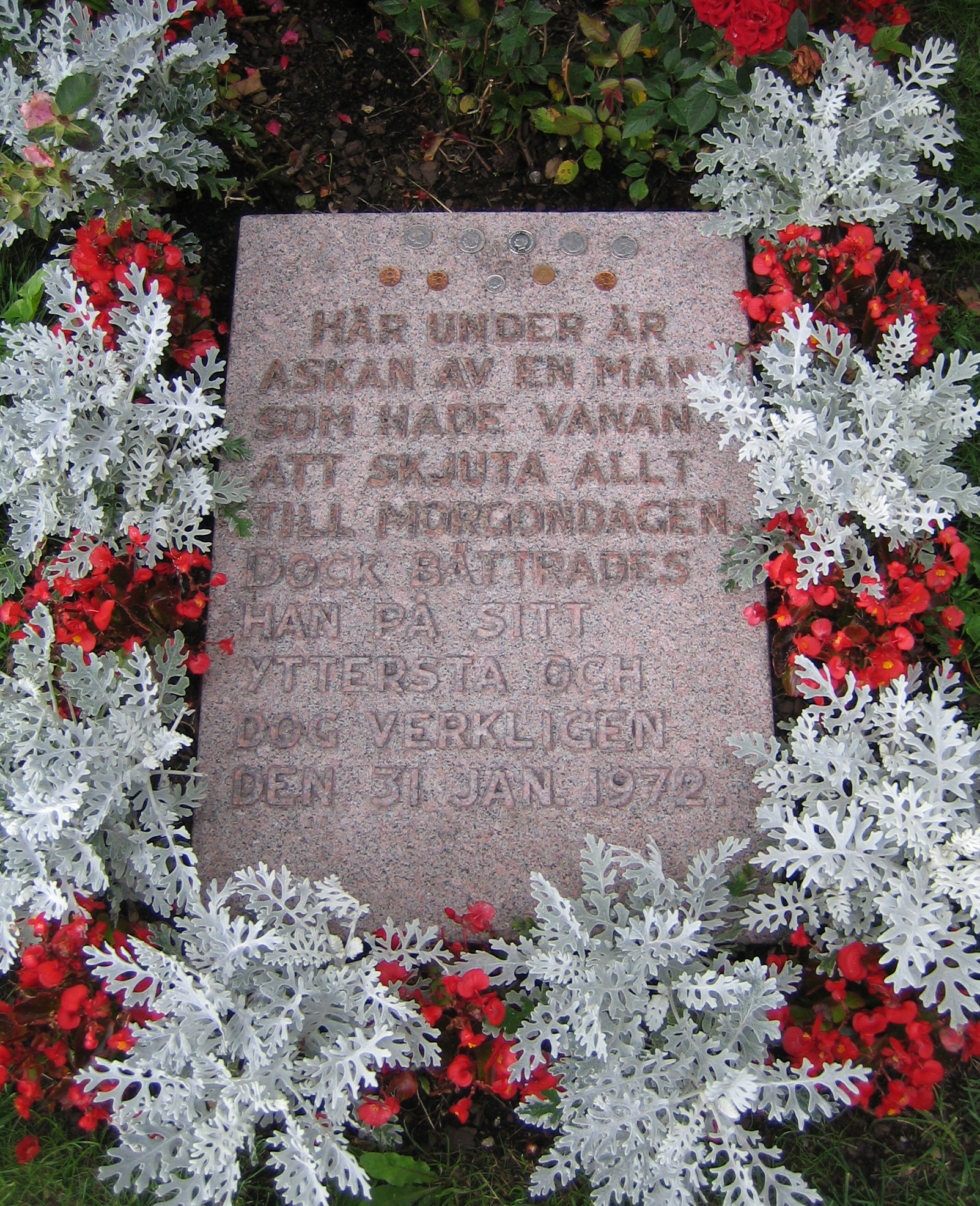 Swedish author Fritiof Nilsson Piratens gravestone. The inscription says: "Below is the ashes of a man who used to postpone everything until tomorrow. Although he did finally improve and actually died on the 31 of january, 1972".